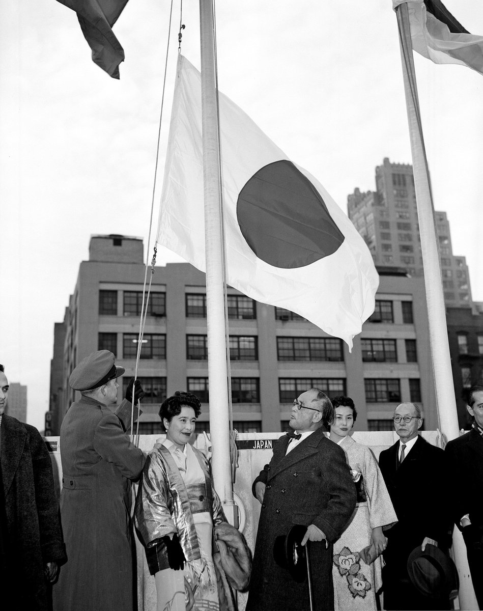 The Japanese flag being raised a the United Nations headquarters in New York City, formalizing the acceptance of Japan as a member. Center right is Foreign Minister Mamoru Shigemitsu.